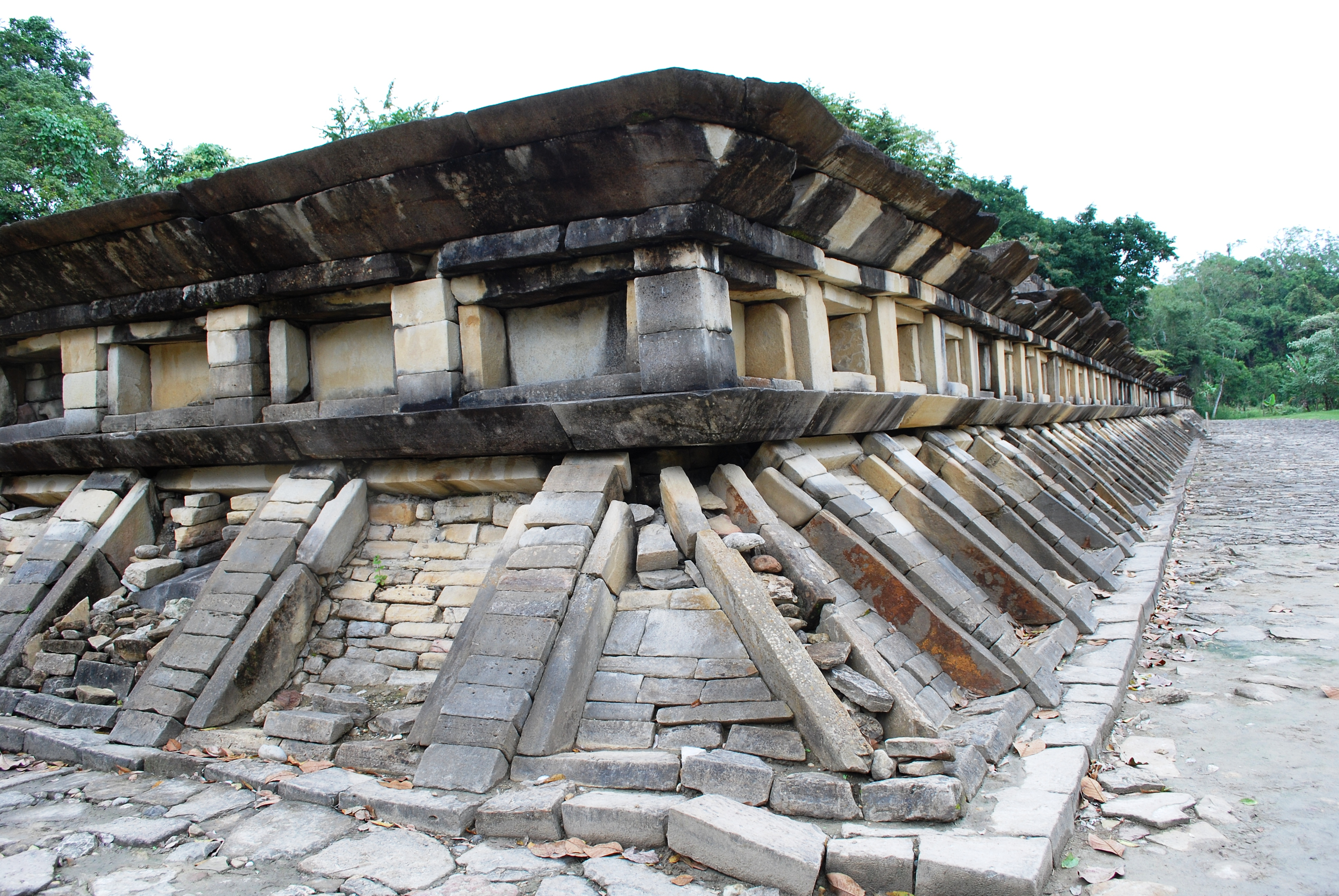 Close view of one of the corners of the Grand Xicalcoliuhqui in Tajin, Veracruz, Mexico